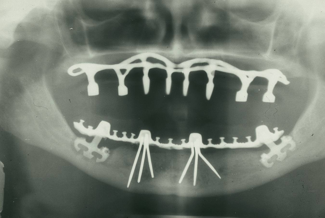 The x-ray controlling from 1976/77 shows an subperiosteal implant (according Cherchéve) in the maxilla. Two implant tripods (according Pruin) in the lower canine region and two stabilized blade Implants (according Heinrich) in the molar region.